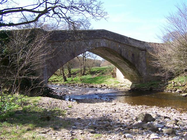 Coverham Bridge